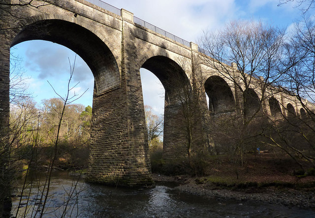 Avon Aqueduct This photo shows seven of the twelve arches of the Avon Aqueduct, which carries the Union Canal across the River Avon. At 247 metres long and 25.9 metres high, it is the longest and highest aqueduct in Scotland and the second longest in the UK. It was built between 1819 and 1822 by Hugh Baird (1770-1827), to a design by Thomas Telford (1757-1834) and, unusually, has a towpath on each side.